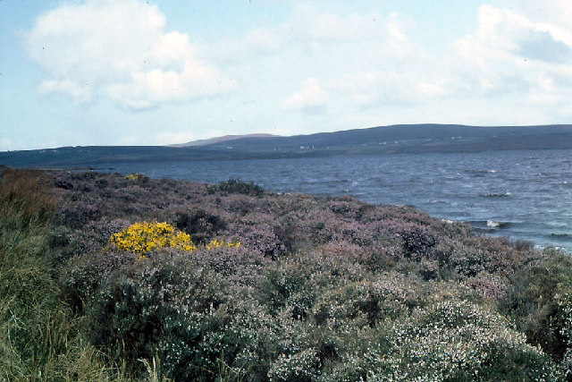 Western shore of Lough Carrowmore, County Mayo. Southeast of Derreens. The heather (mauve) in bloom is Irish heath (Erica erigena); there is also Gorse (Ulex europaeus) (yellow) in bloom.